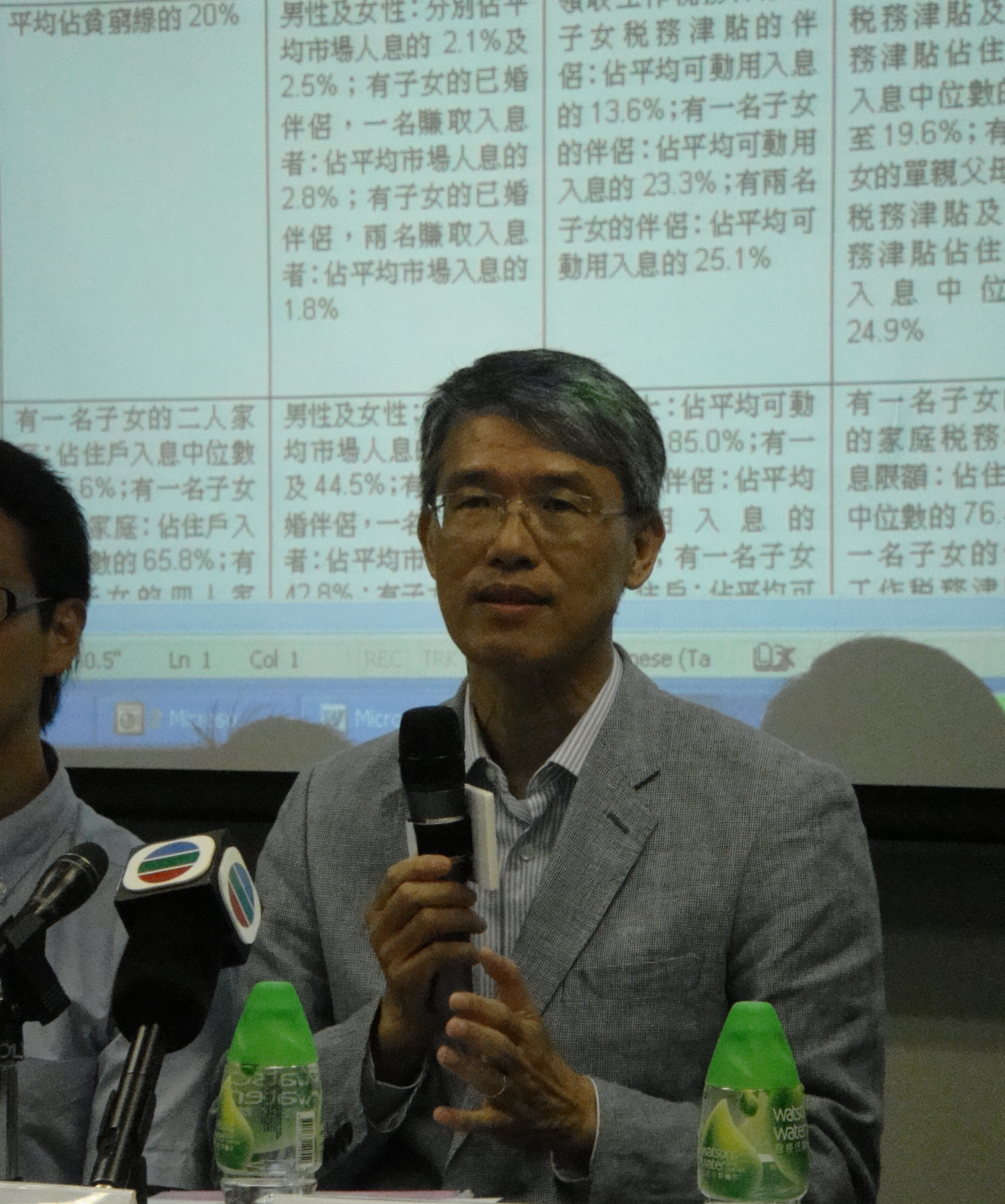 中文（香港）: 王卓祺 / Prof. Wong Chack-kie